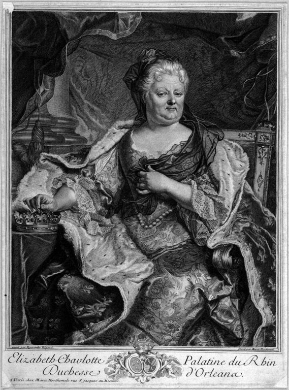 Elisabeth Charlotte of the Palatinate (1652-1722), Duchess of Orléans